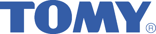 Logo of Tomy, a Japanese toy manufacturer.